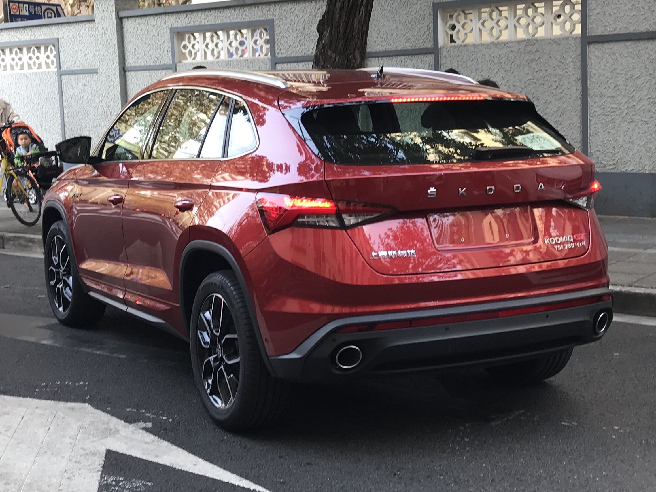 Skoda Kodiaq GT rear